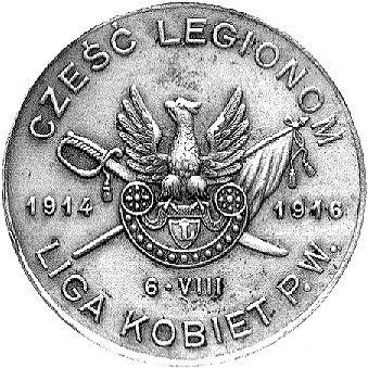 obverse - unsigned medal made at J. Knedler's facility by the League of Women of the Ambulance Service, 1916.